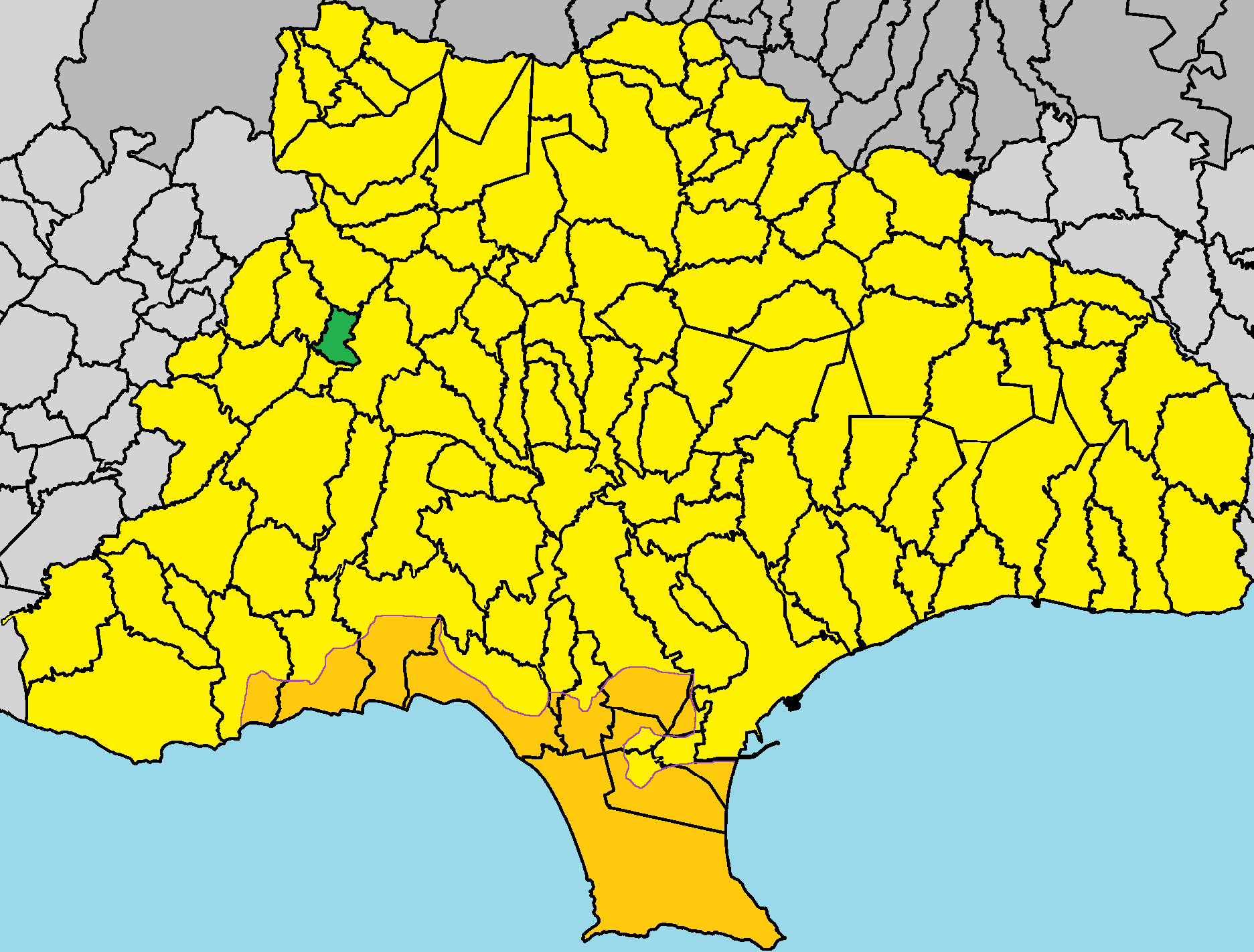 Potamiou in Limassol District.